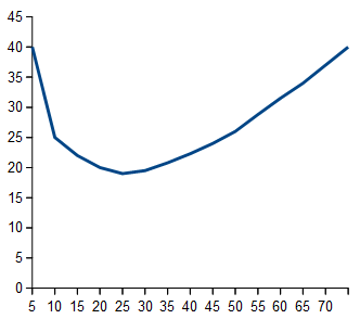 The average total volume of the motor volume necessary to maintain health in people of different ages. X axis - hours per week, Y - age groups